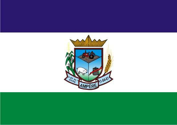 Pr-ampere-bandeira